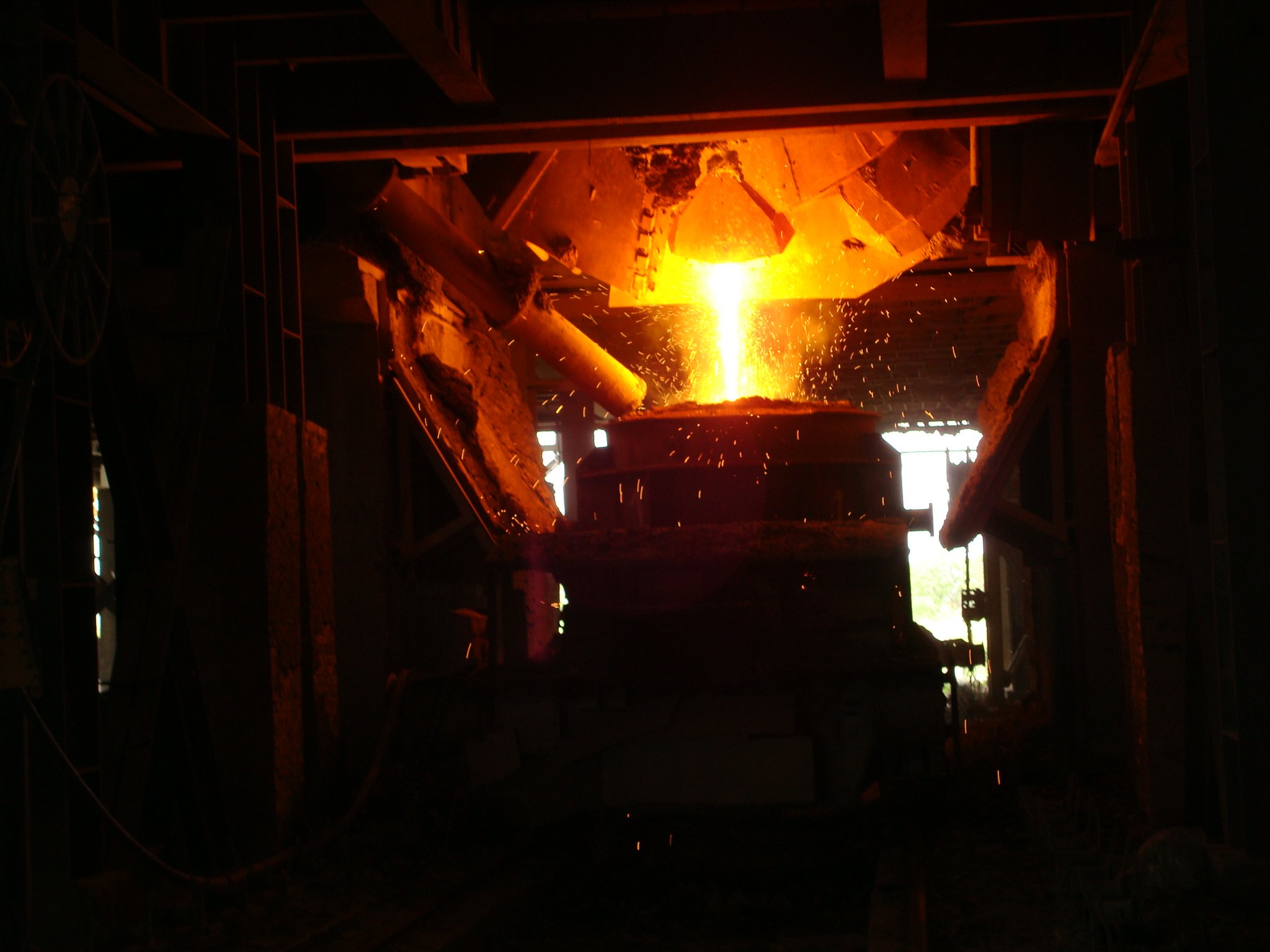 Liquid steel tapped in a steel ladle from BOF